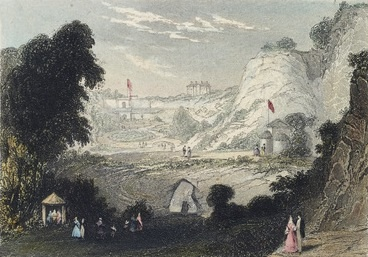 Colour engraving of Rosherville Gardens, a pleasure garden in Gravesend, Kent which opened in 1839. Print dates from 1841.